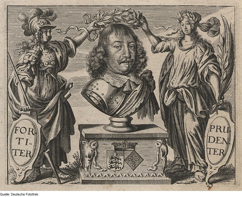 Original image description from the Deutsche FotothekEpigramm